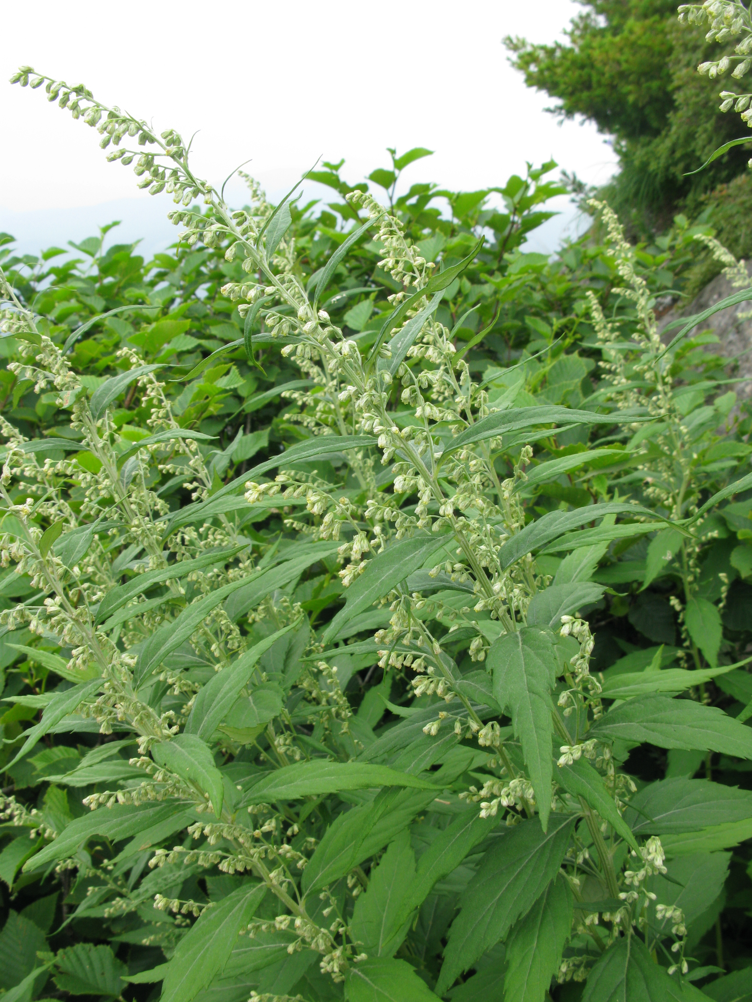 Artemisia monophylla ,Mt. Bamdaisan, Fukushima pref., Japan